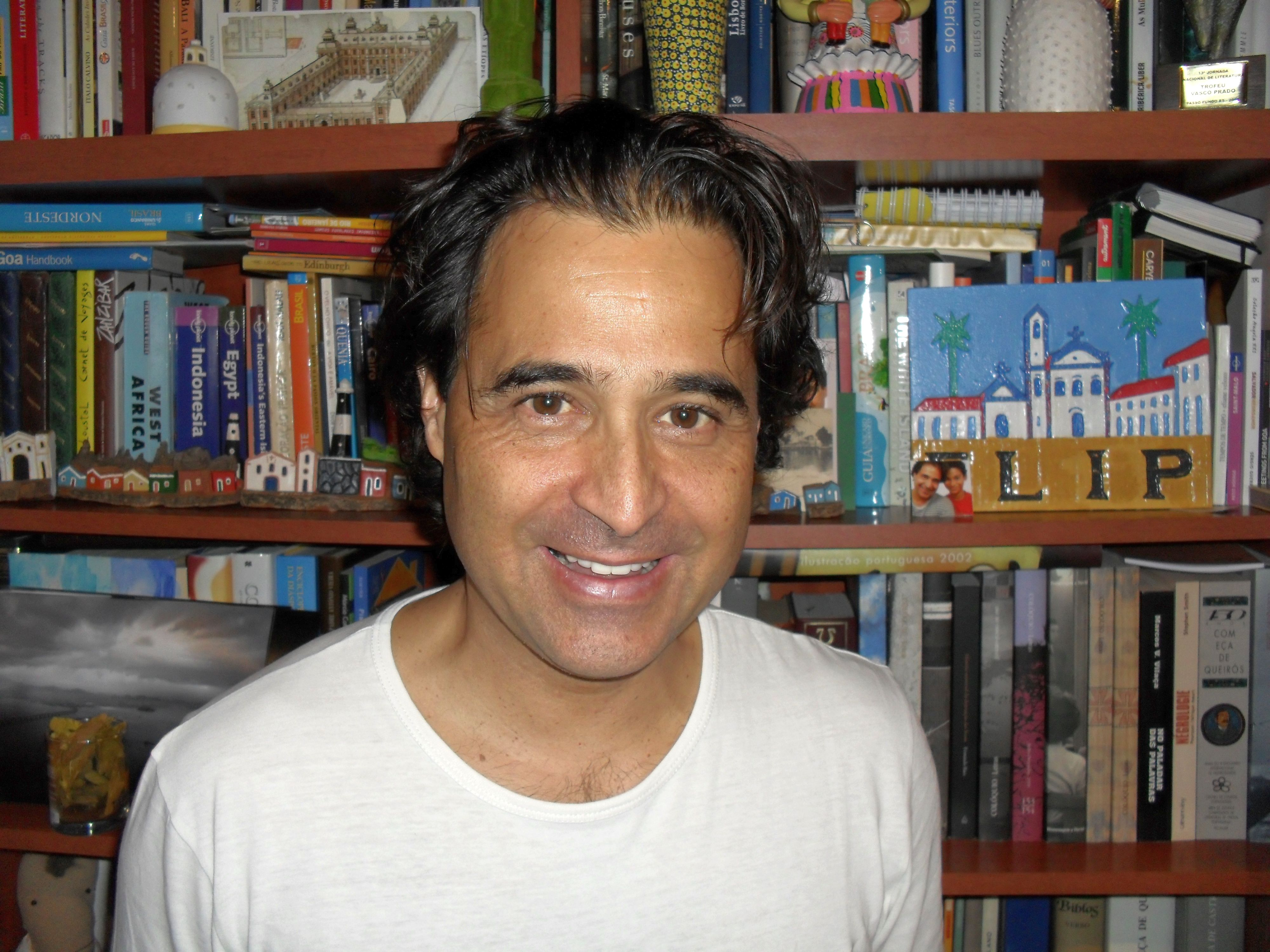 Angolan journalist and writer José Eduardo Agualusa (Alves da Cunha).